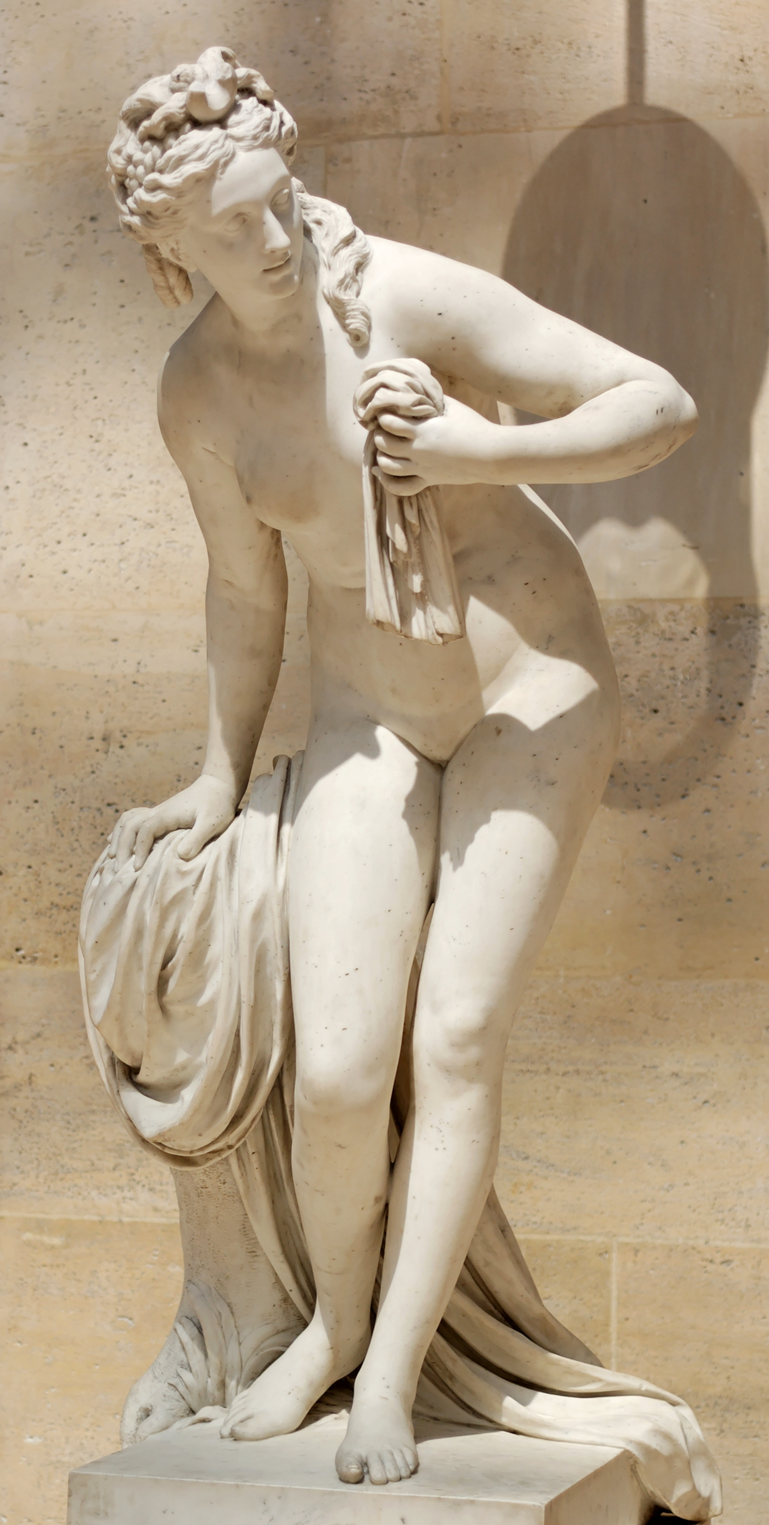 Diana. Marble, 1778. Madame Du Barry commissioned the statue for her castle of Louveciennes as a counterpart for the Bather by the same artist.